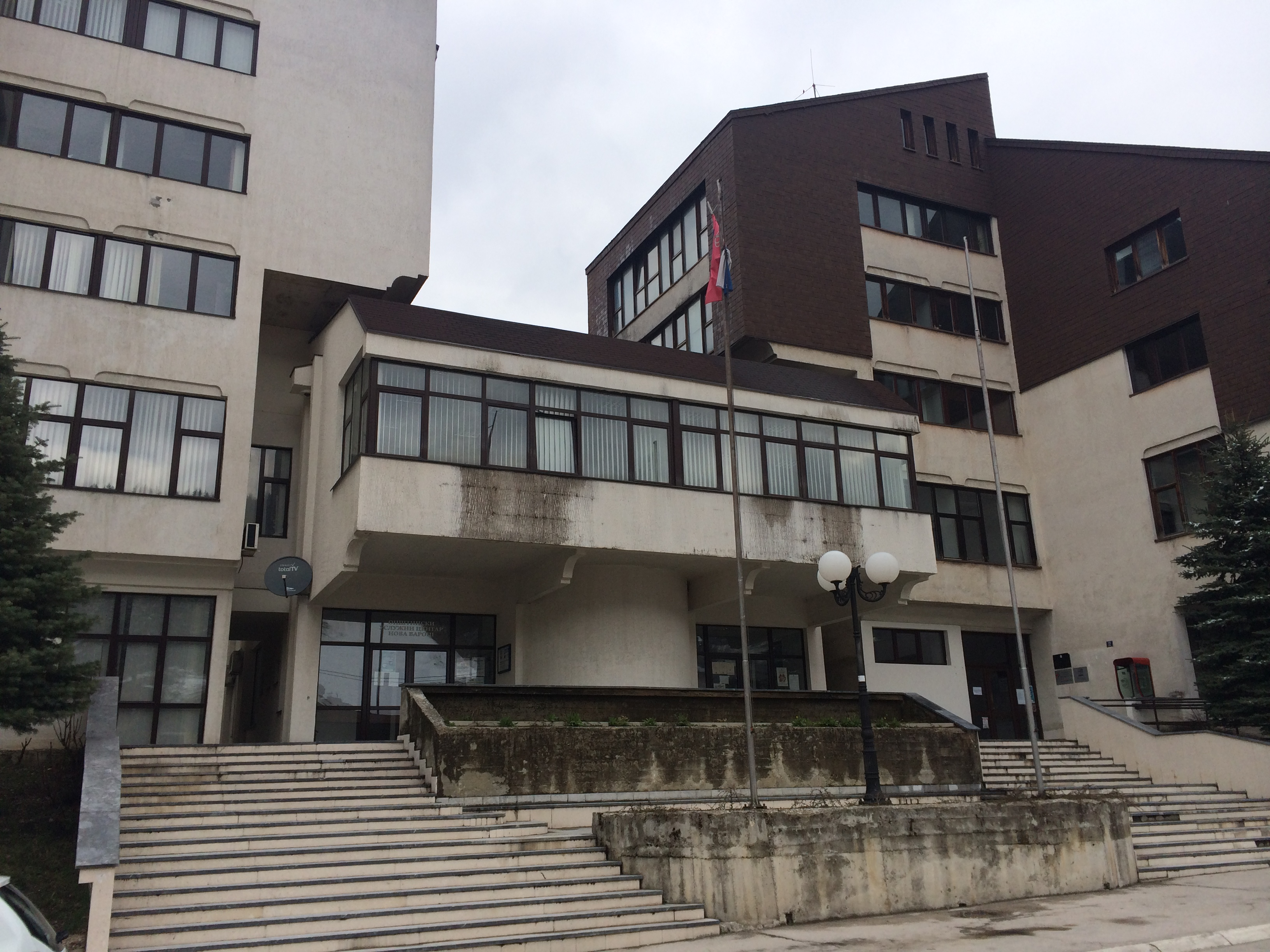 Image from the city of Nova Varos, in the Sandzak, southwest Serbia